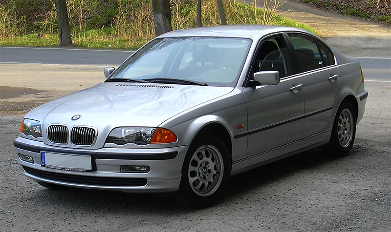 This image shows a BMW 320i E46 model 2001.